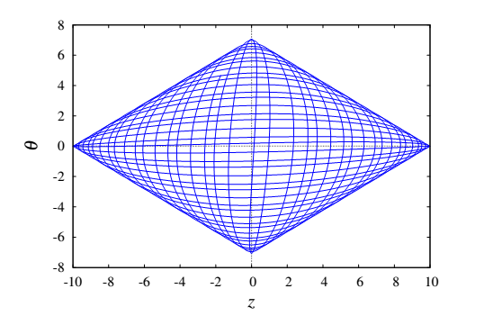 Retrato de fase no plano formado pela elongação e o ângulo.